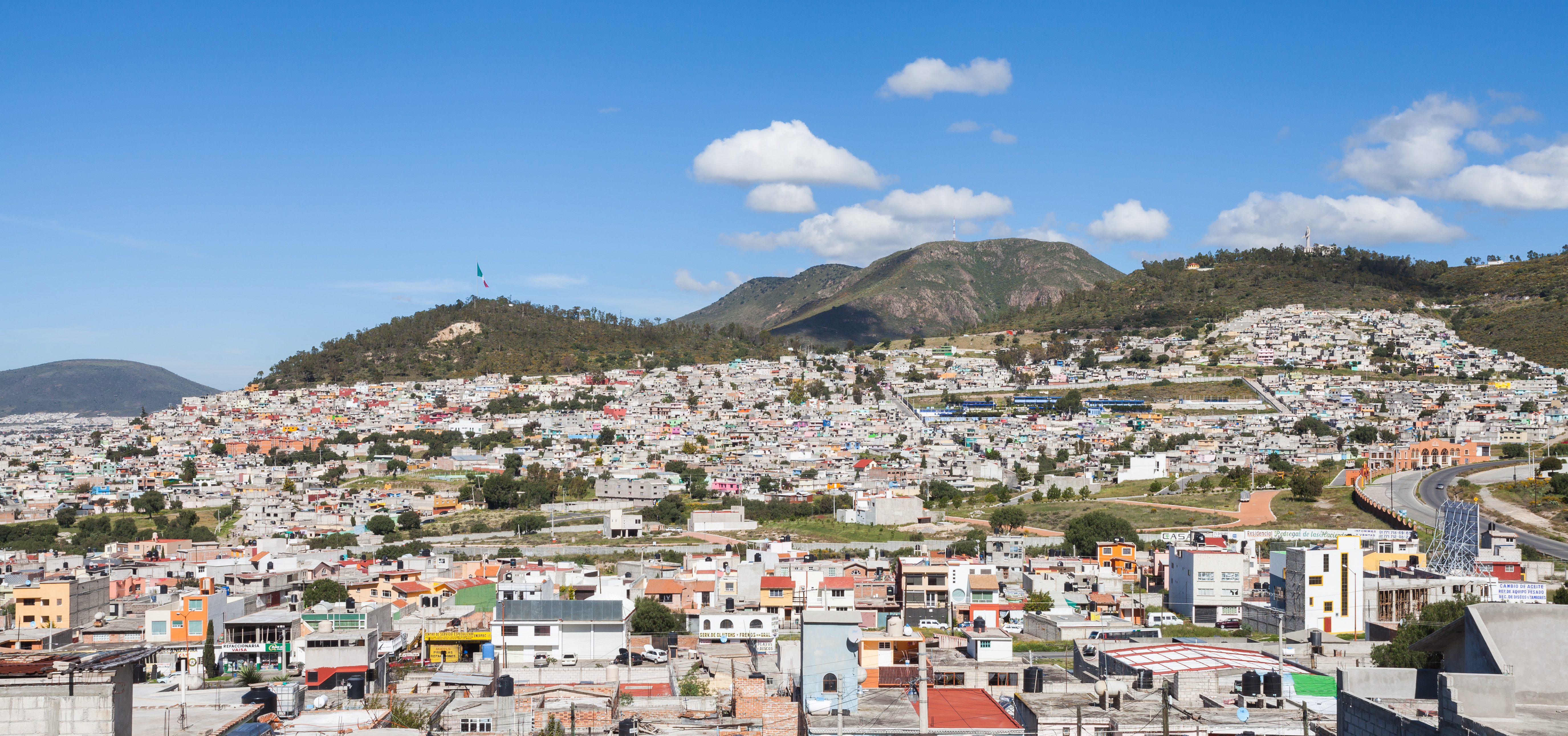 View of Pachuca, Hidalgo, Mexico